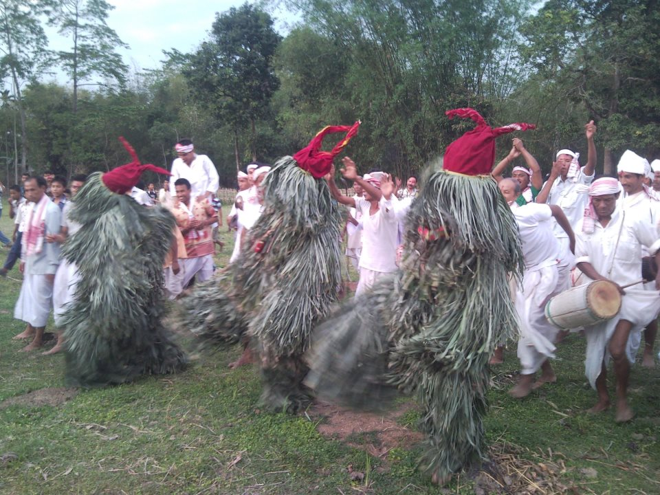 Sunuwal Kasari Janagosthir Bahua Naas